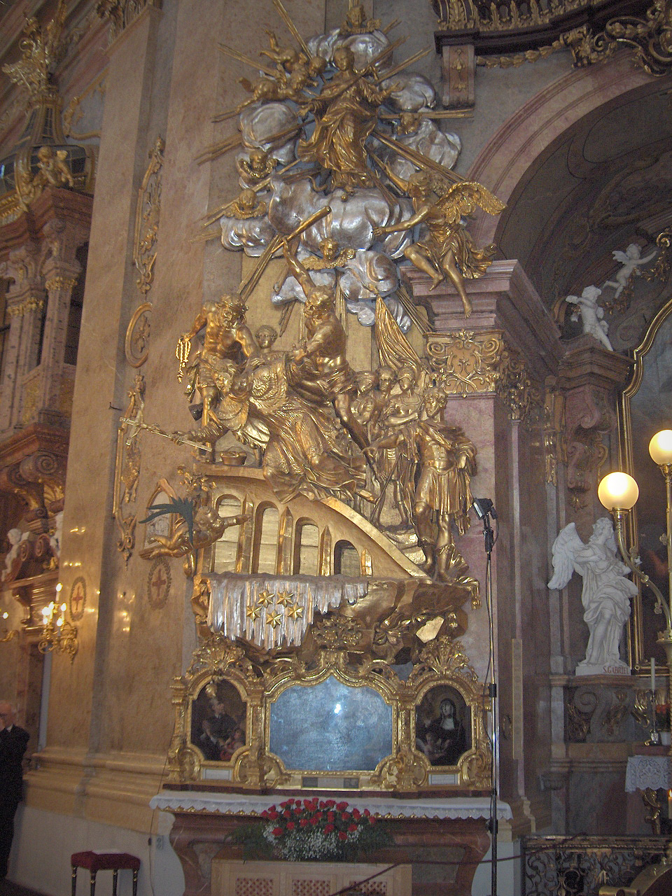 Sculpture of the martyrdom of S. John Nepomuk; on the right is Wenceslaus, King of the Romans, on top : Mother of God (by Lorenzo Mattielli) in the Peterskirche in Vienna, Austria